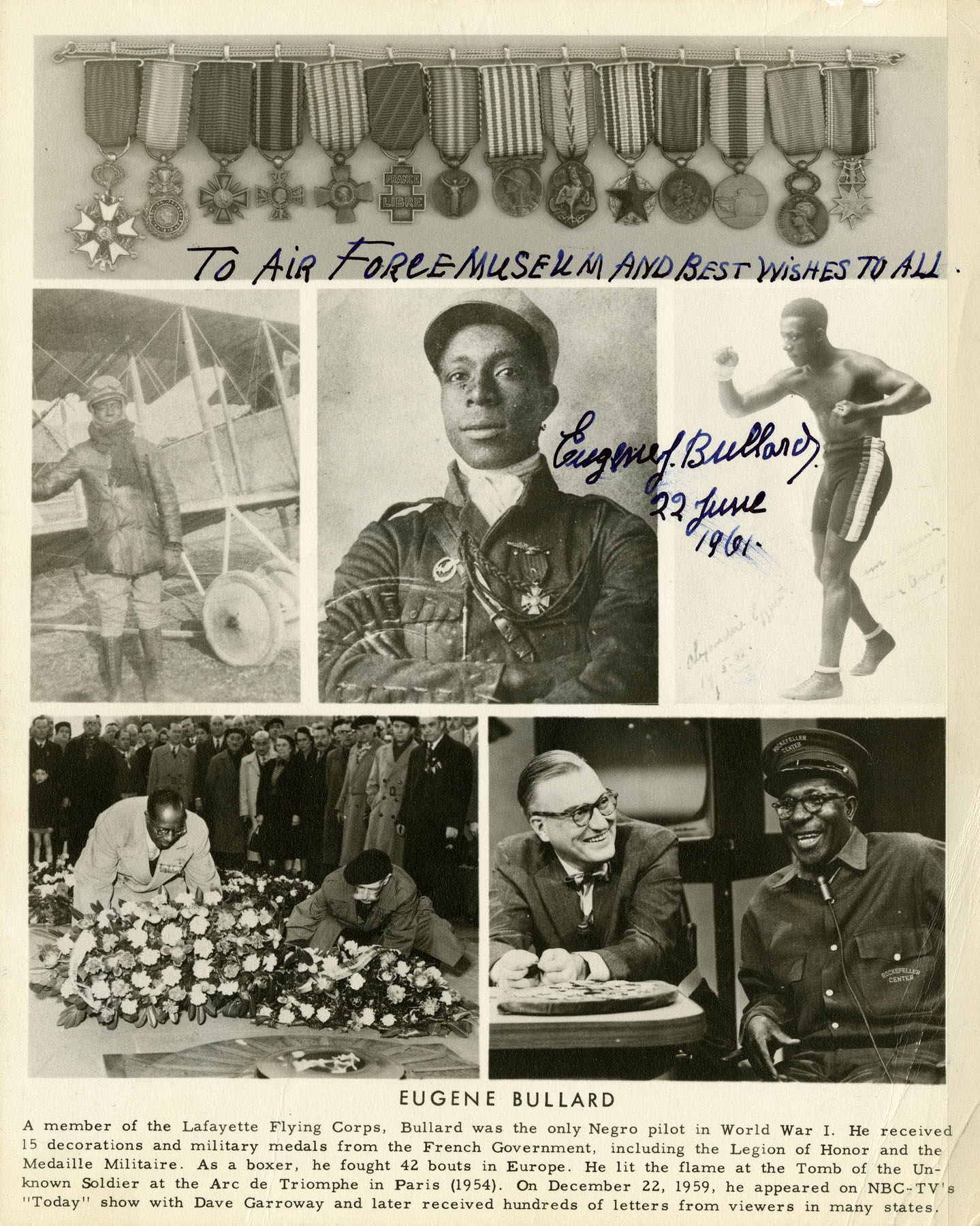 Eugene Bullard's, the first African-American military pilot, photo montage.